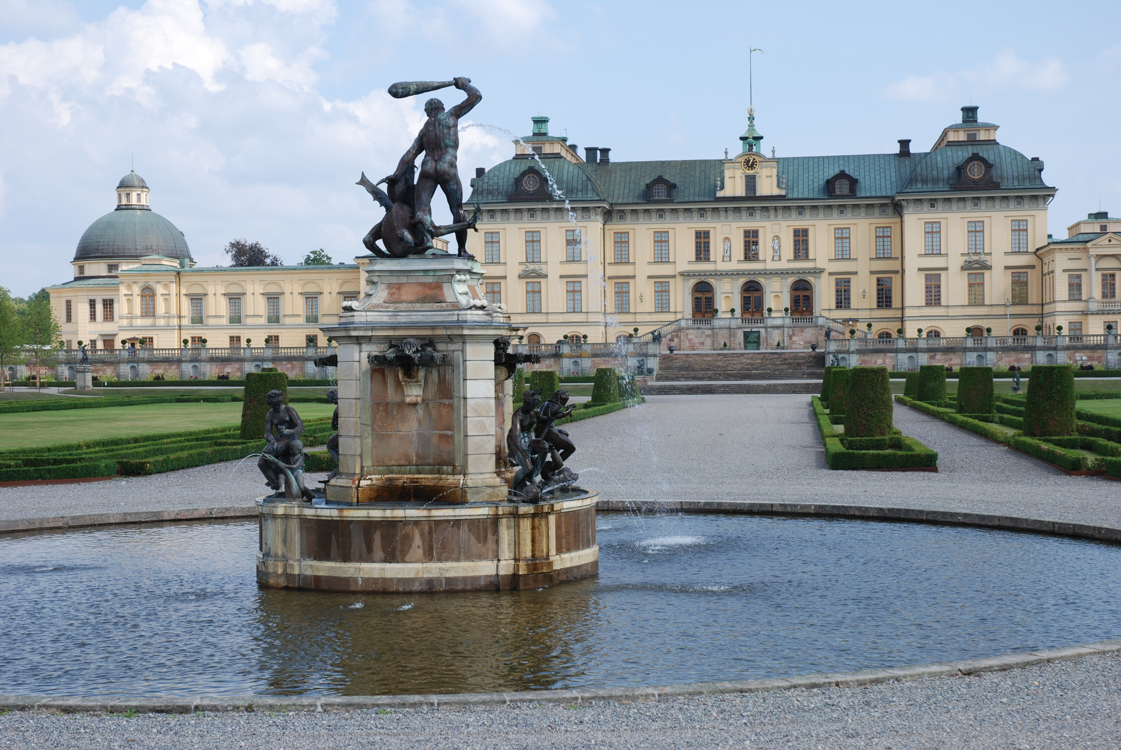 The Hercules fontain by Nicodemus Tessin the younger, in the park of the Drottningholm Castle in Sweden, with the Adriaen de Vries sculpture "Hercules in battle with the dragon on top